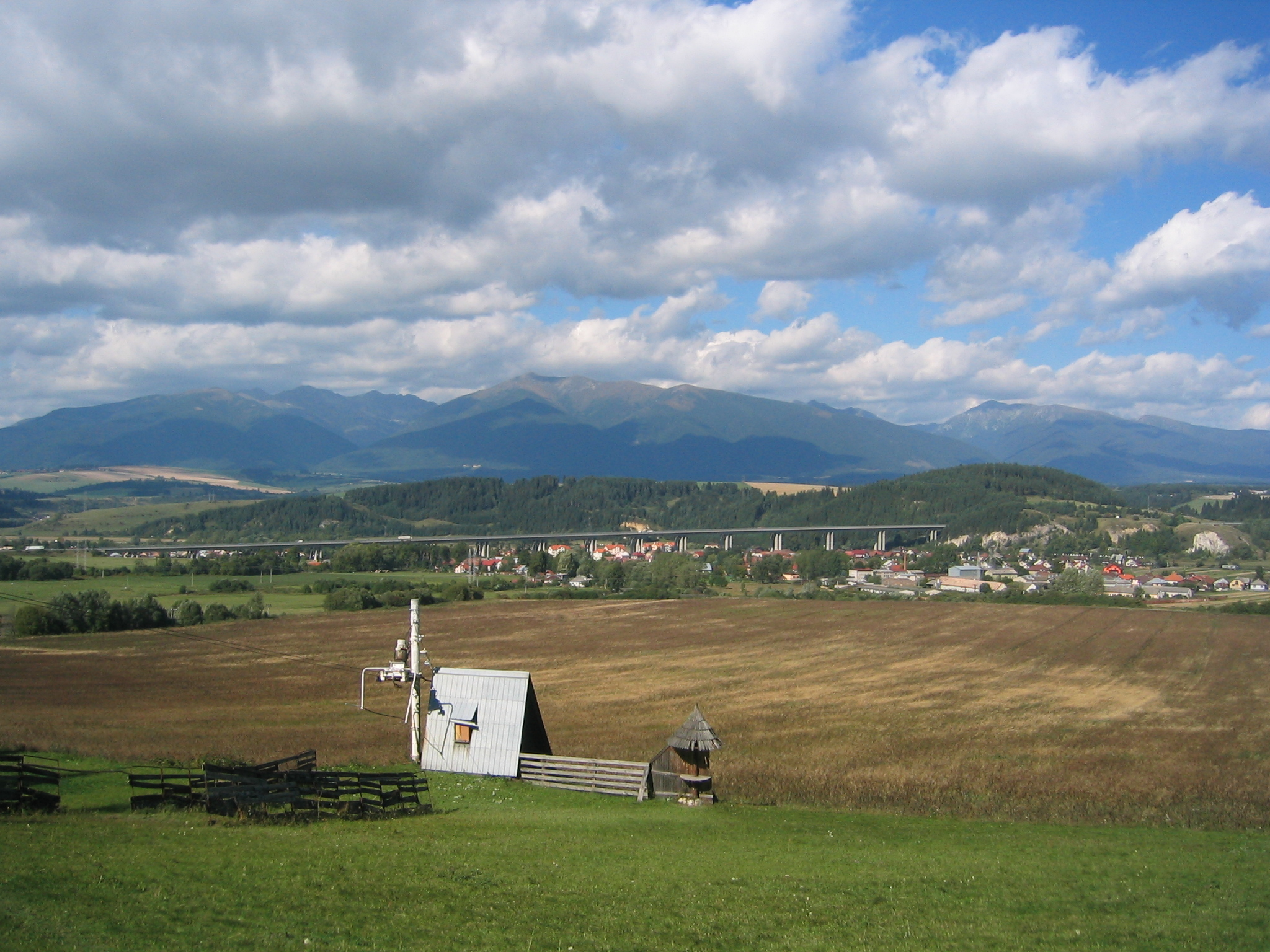 D1 motorway bridge in Slovakia as seen from Liptovský Ján